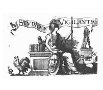 Studio et Vigilantia, motto of the printer Pieter van der Aa from 1695